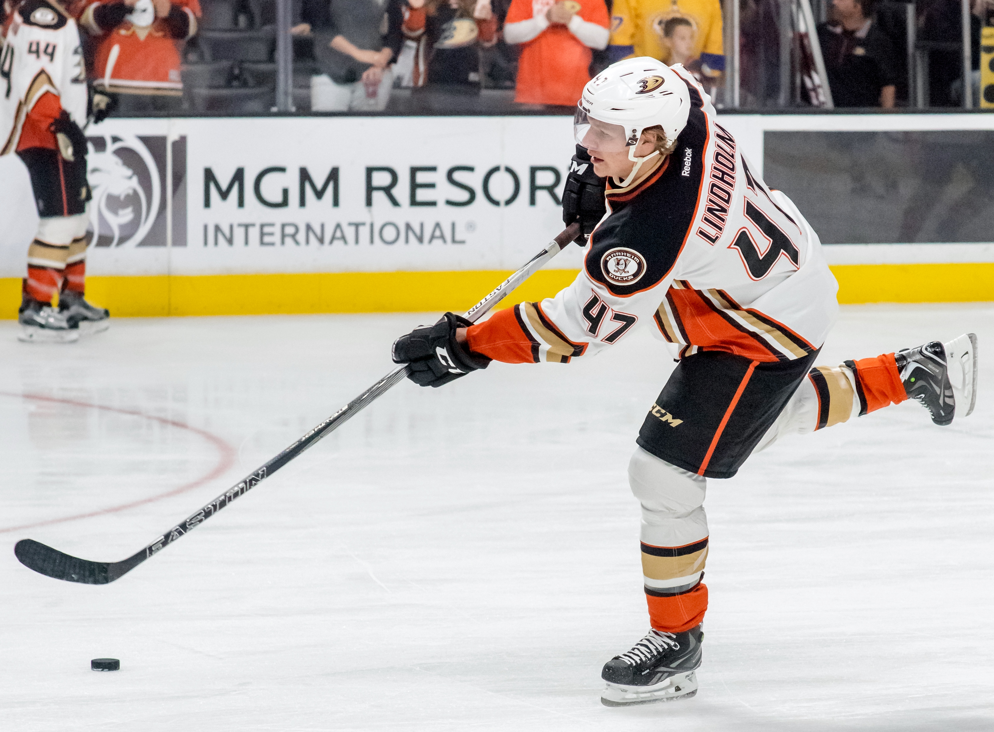 Hampus Lindholm, Swedish ice hockey defenseman